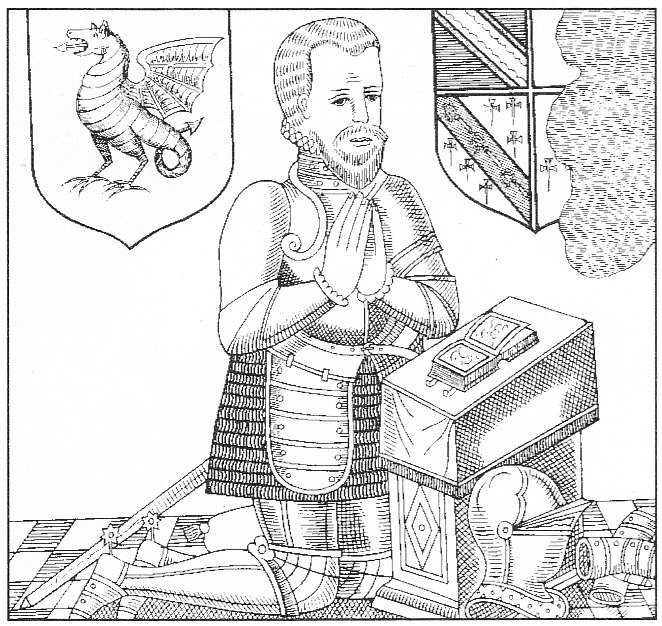 Brass rubbing of monumental brass in Filleigh Church, Devon, depicting Sir Bernard Drake (d.1586)